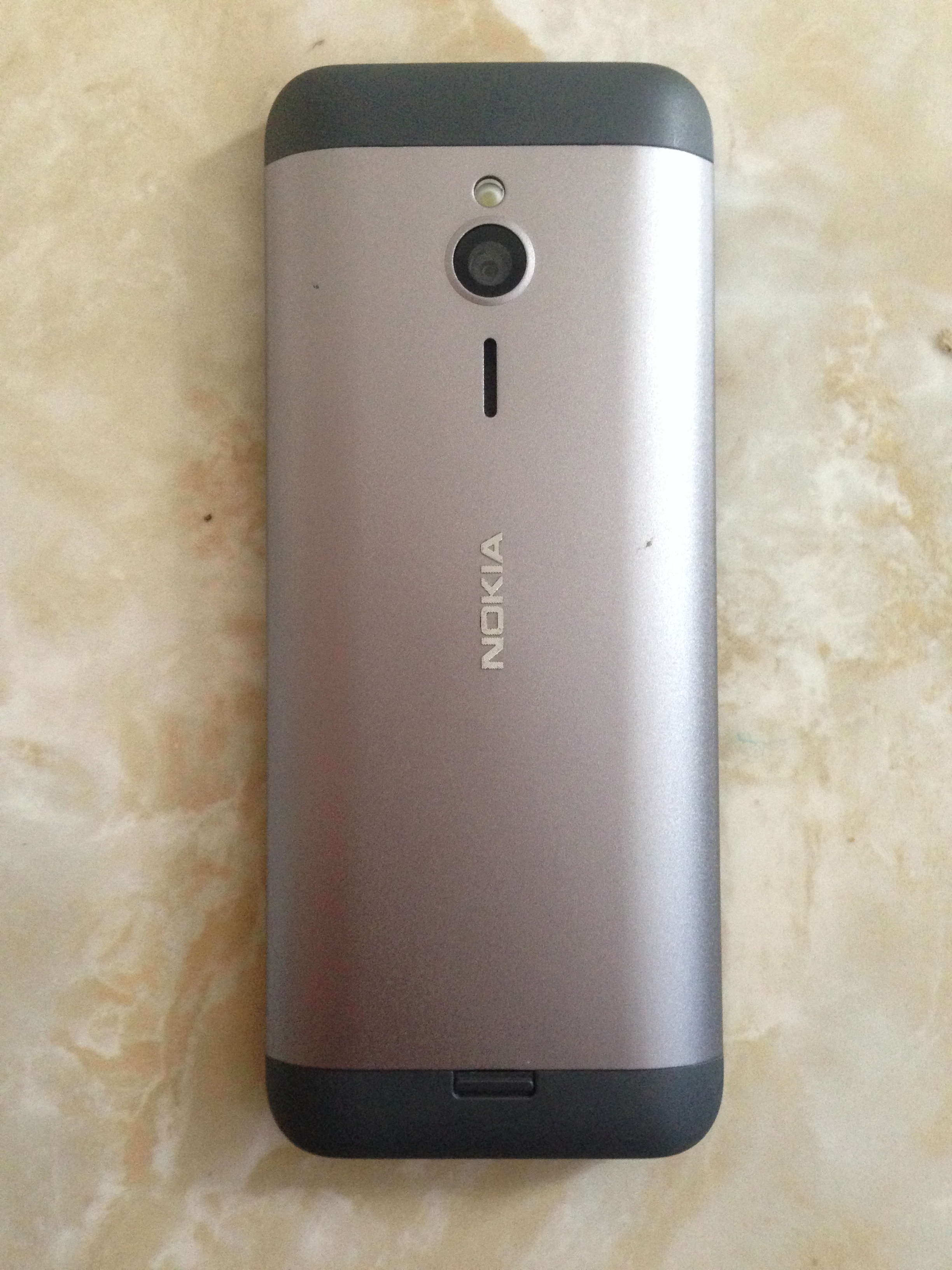 A Picture of Nokia 230 rear